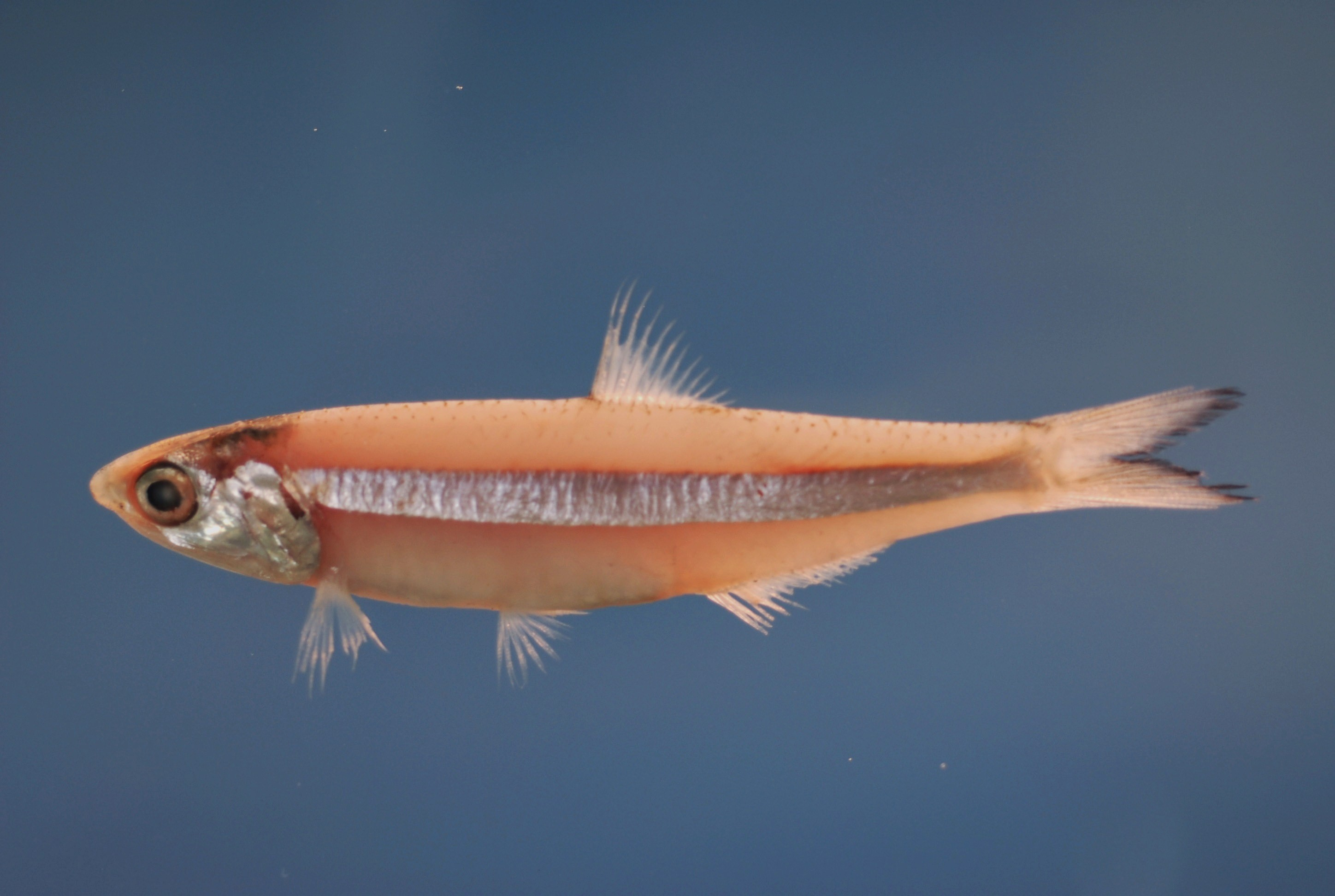 Dusky anchovy ( Anchoa lyolepis ). Gulf of Mexico.